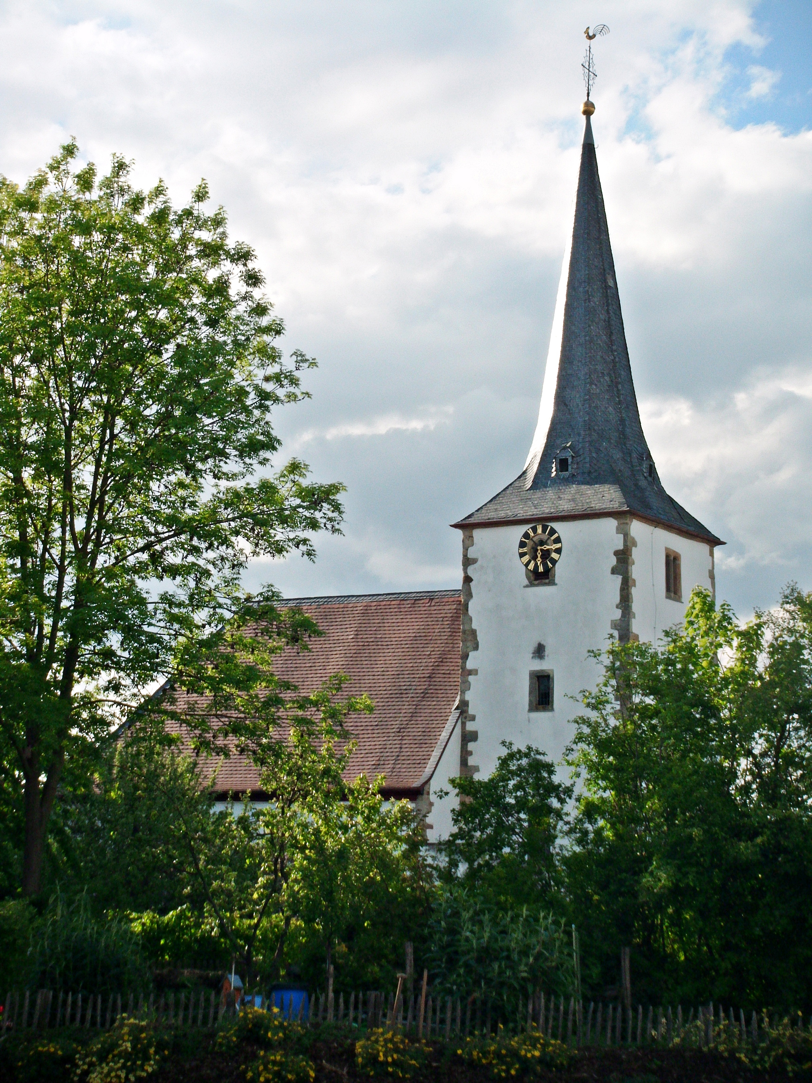 Morschheim Protestantische Kirche